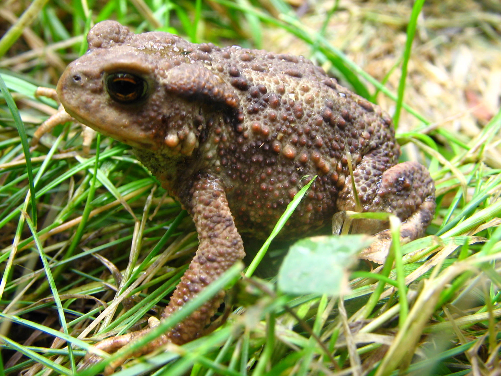 Common toad (Bufo bufo) in grass, near Telč, southern Czech Republic